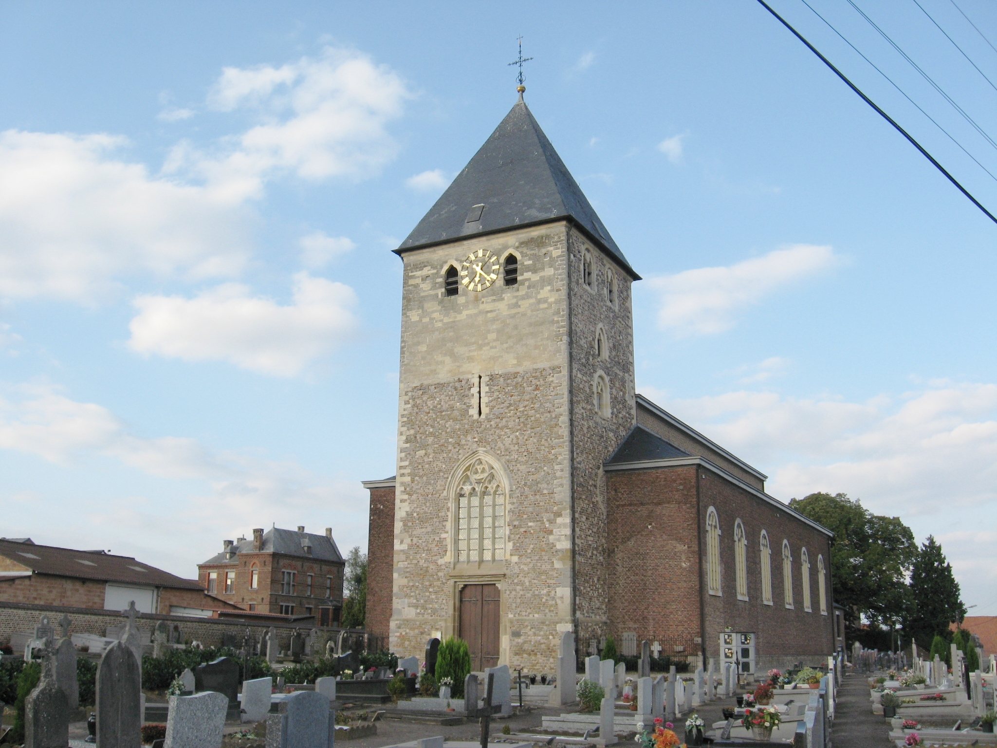 Church of Saint Martin in Rutten, Tongeren, Limburg, Belgium